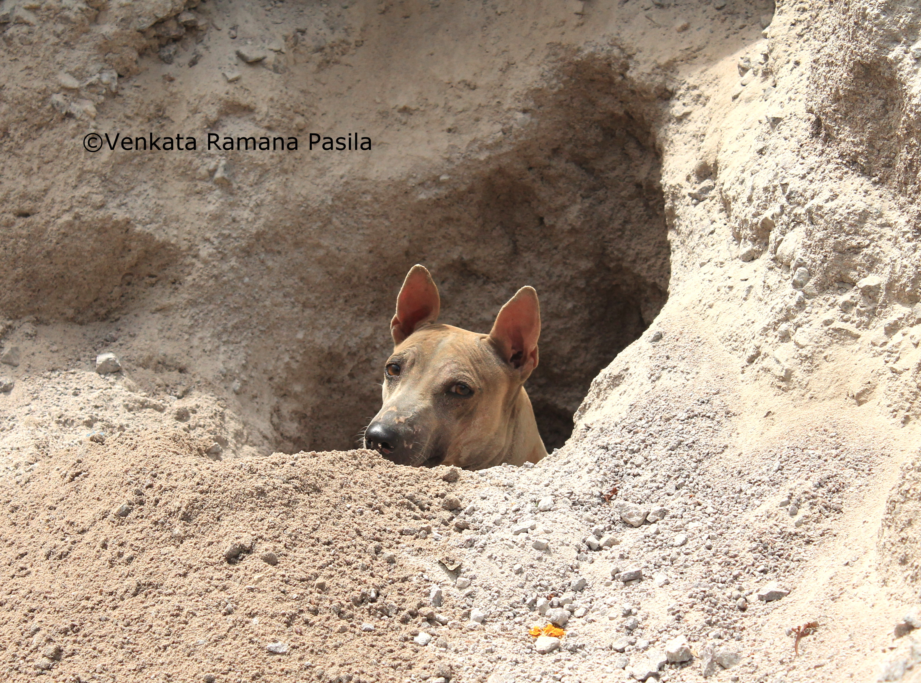 Jonangi in Ditch